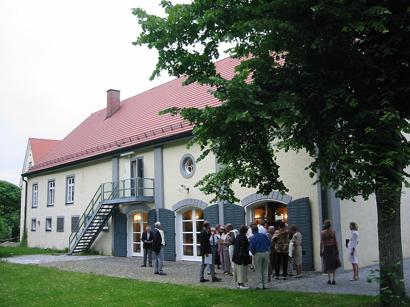 Stadttheater Weißenhorn, Germany: rear view (during intermission of a chamber opera performance)